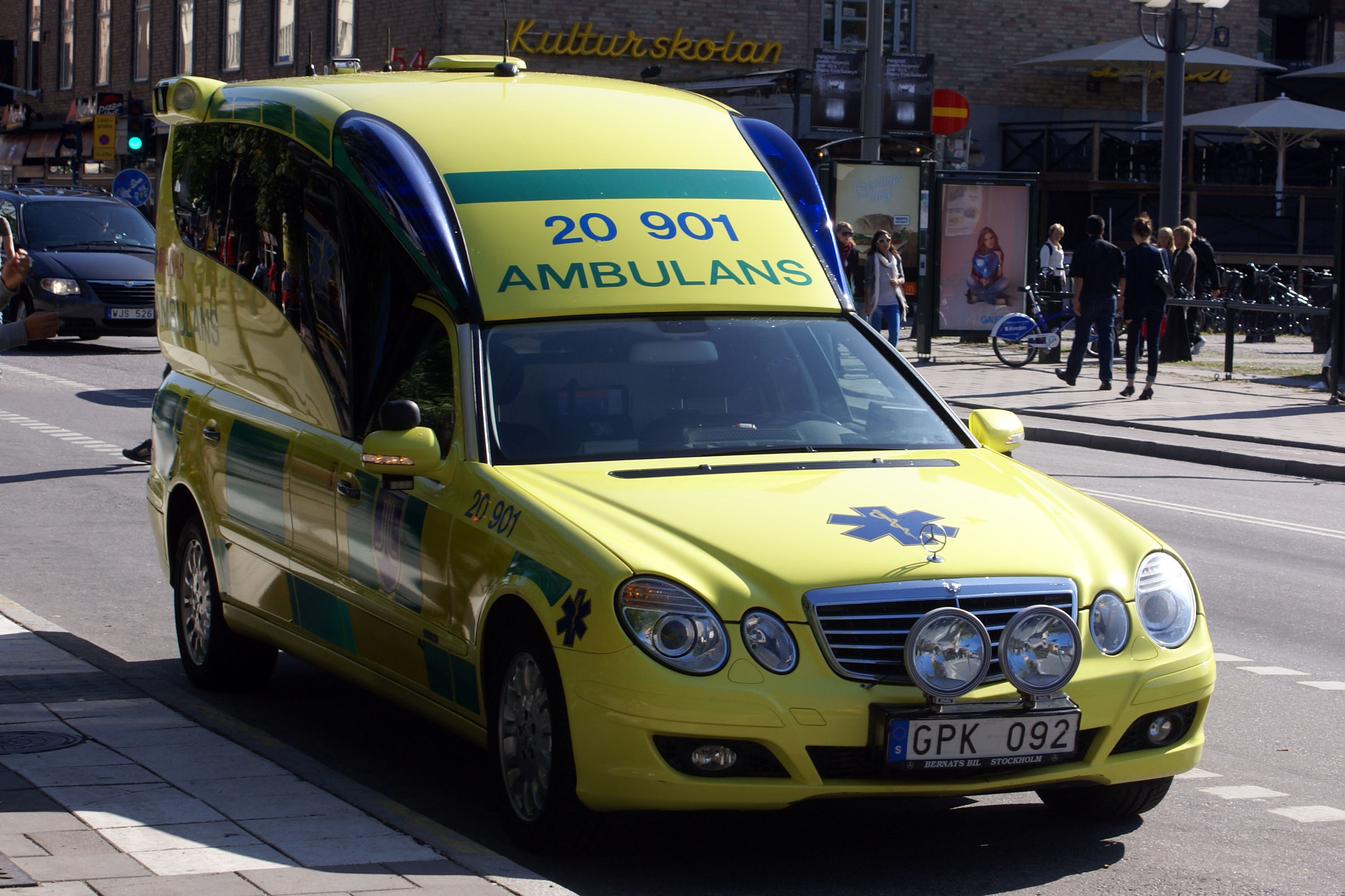 Ambulance vehicle in Sweden. A Binz A2003 based on the Mercedes-Benz E-Class